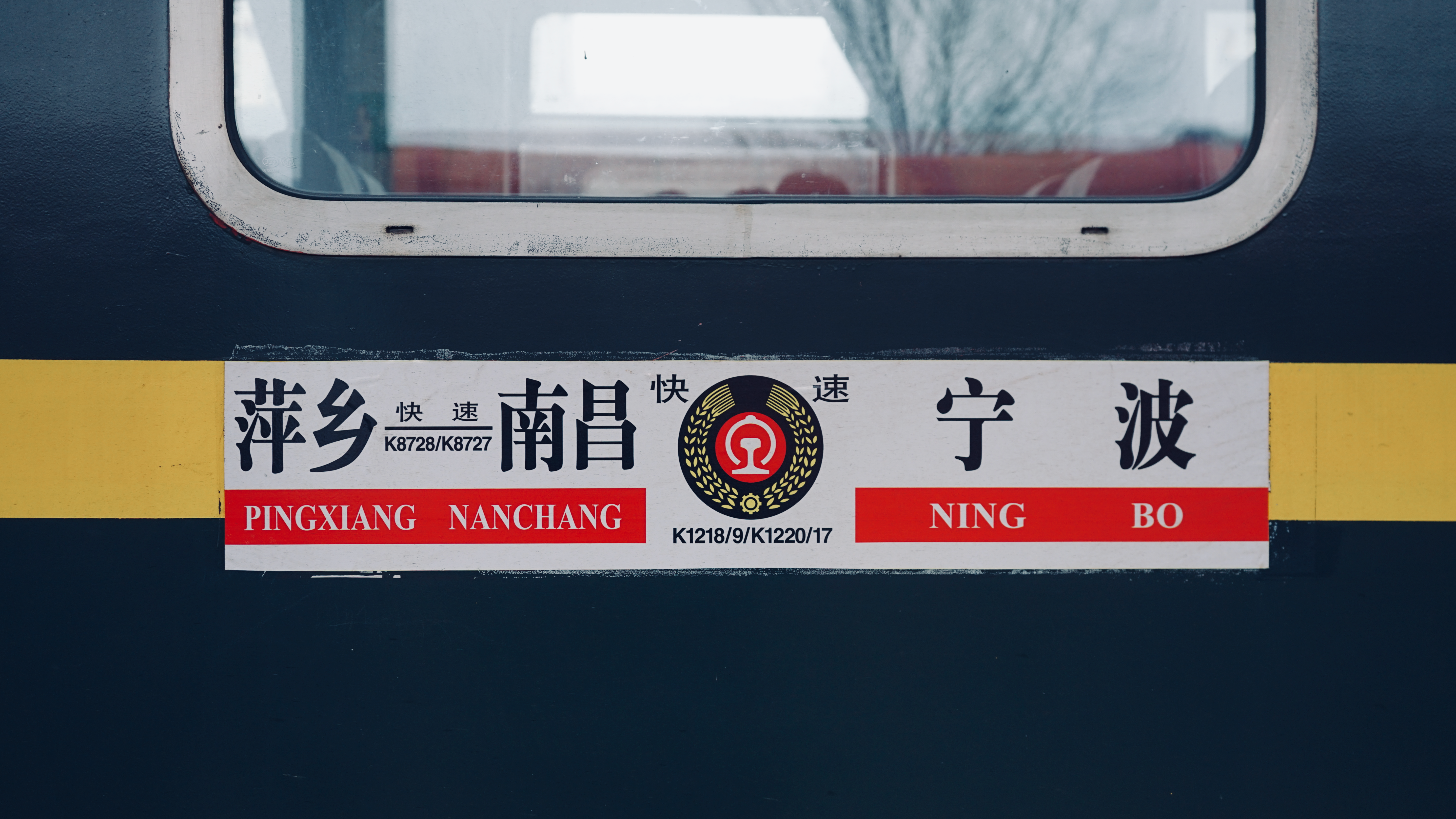 A sign showing the starting and terminal station of the train. This kind of sign is called Shuipai (水牌) in Chinese by the train fans, which literally means the Water Board.